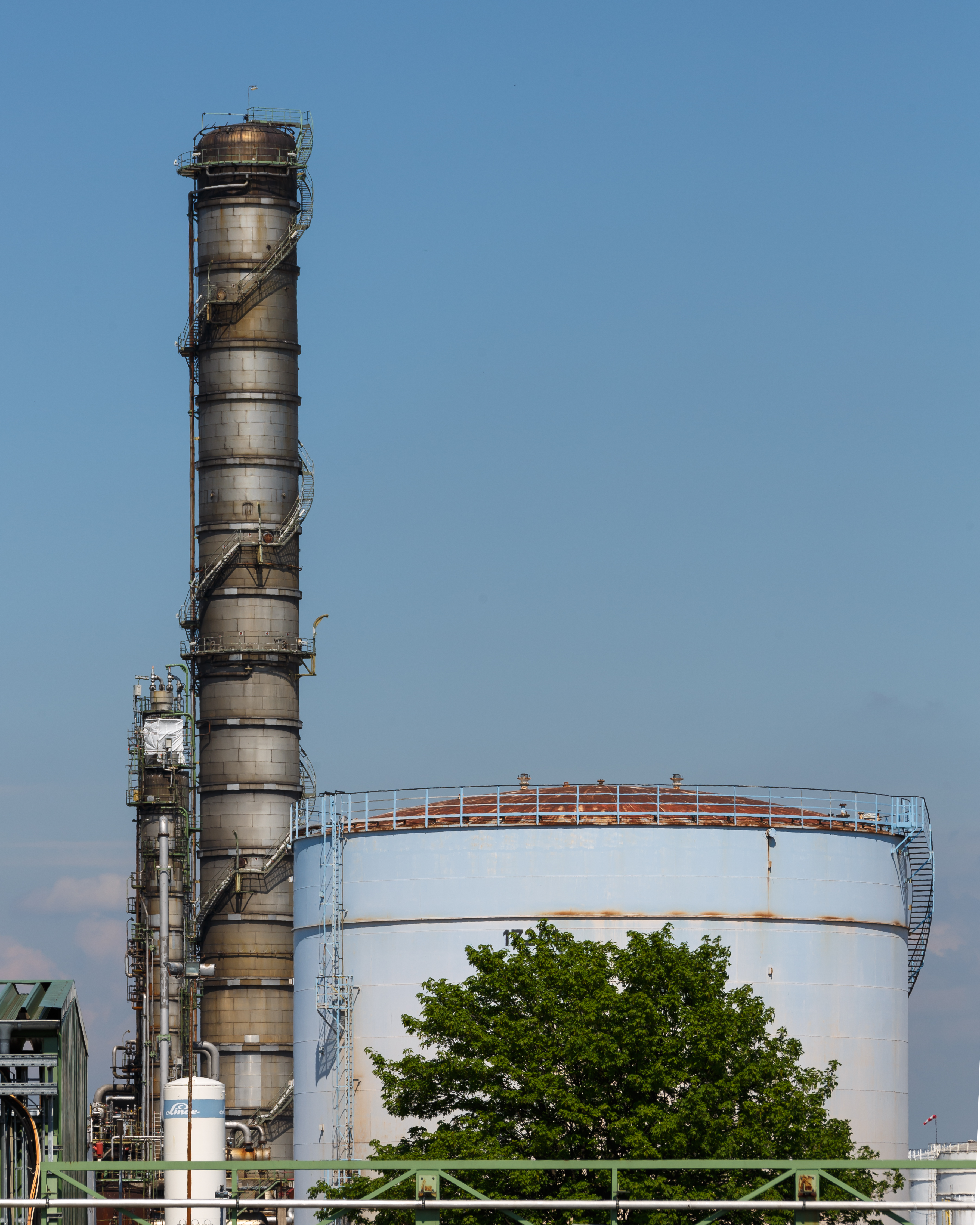 Godorf, Köln, germany: 100 m destillation column of Rhineland Refinery Godorf